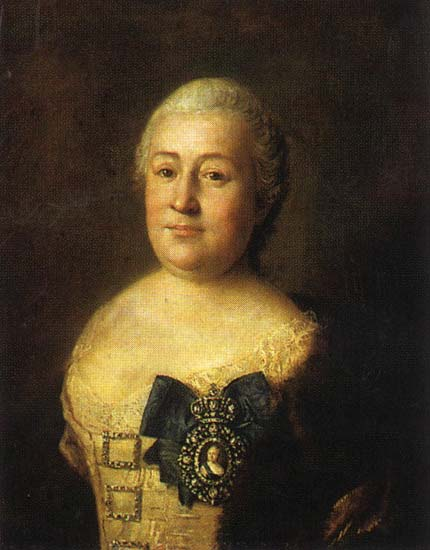 Portrait of Mavra Yegorovna Shuvalov (1708-1759)